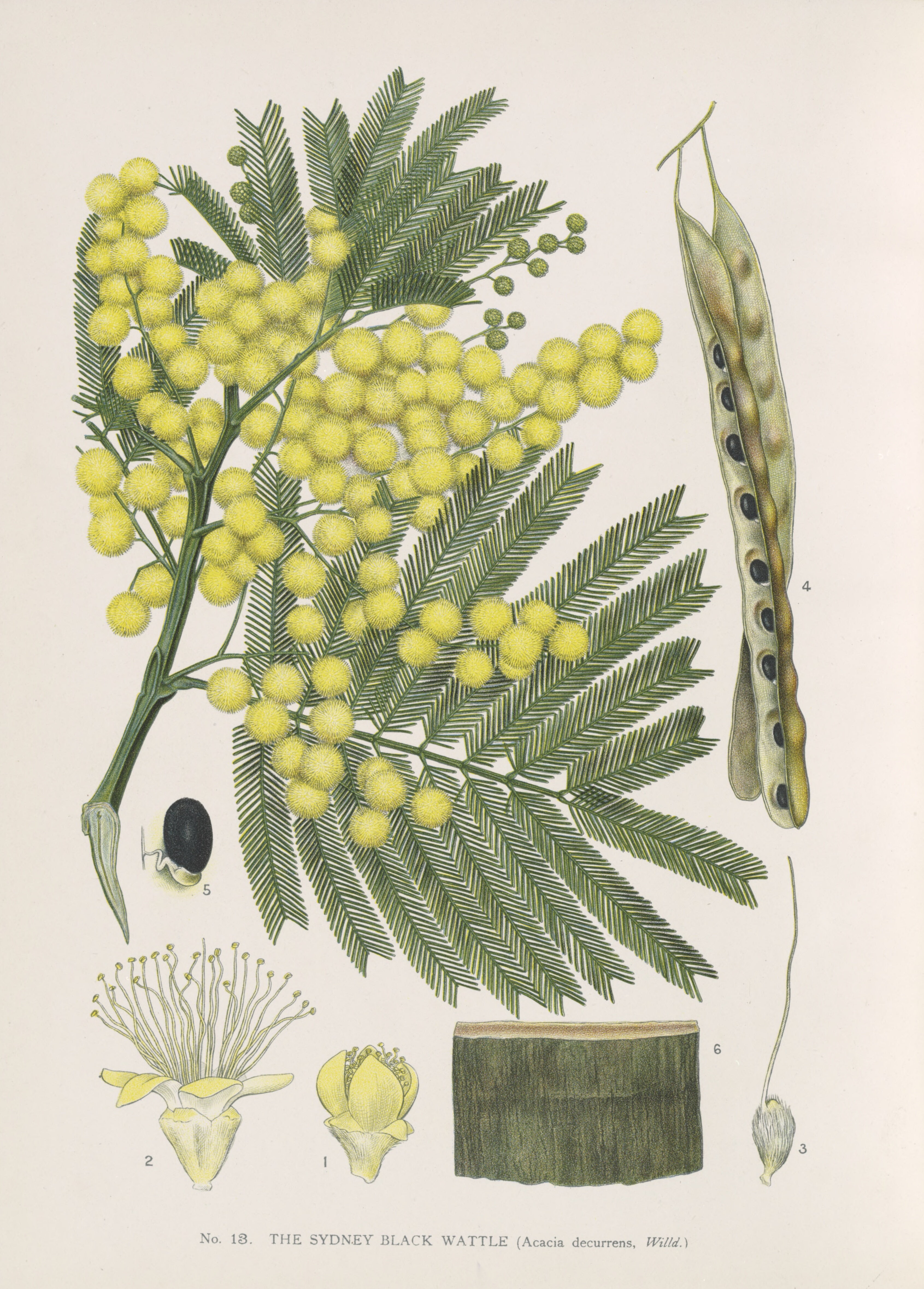 Acacia decurrens (Green Wattle) From: 'The Flowering Plants and Ferns of New South Wales - Part 4' (1896) by J H Maiden NSW Government Printing Office